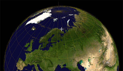 Location of Kursk sub shipwreck